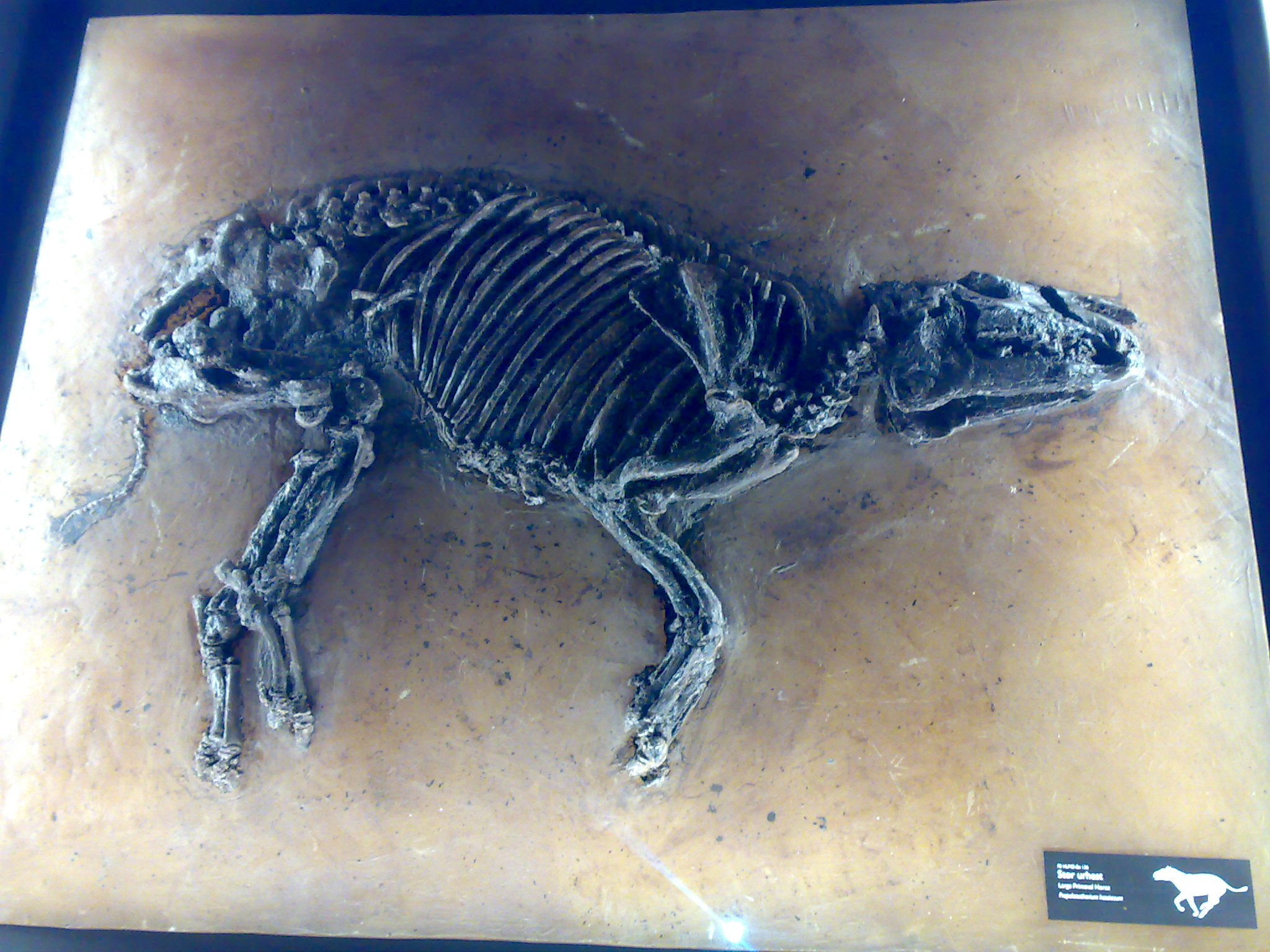 Propalaeotherium hassiacum from Messel, Germany, Oslo Zoological Museum